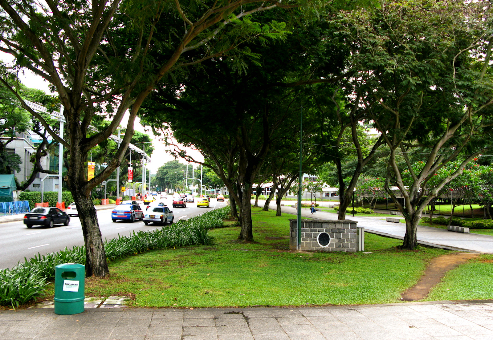 A stone structure bearing an oval plaque stating "1956 Stamford Bridge" which formed part of the defunct Stamford Bridge in Singapore. The Singapore Recreation Club and Stamford Road are to the left.